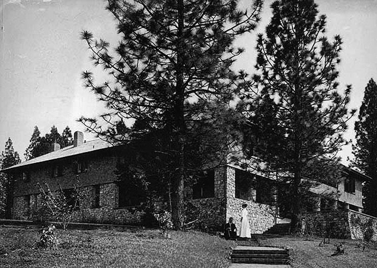 The North House was designed by Julia Morgan as a hospitality house for the North Star Mine. This photograph is from the Foote family collection. Arthur De Wint Foote took the photo in 1907 when he was superintendent of the North Star Mine.